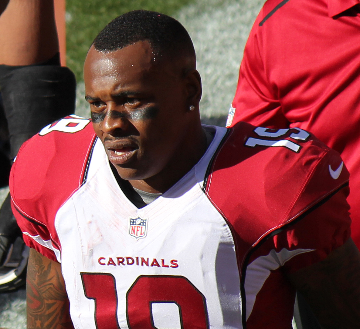 Ted Ginn, Jr., a player on the National Football League.